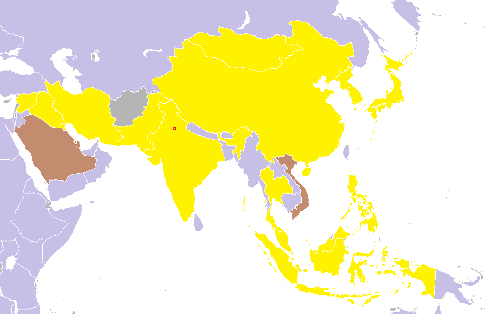 Gold for countries achieving at least one gold medal.Silver for countries achieving at least one silver medal.Bronze for countries achieving at least one bronze medal.Gray for countries that are/were not part of the Olympic Council of Asia or didn't participated.A circle displays the host city (Delhi).